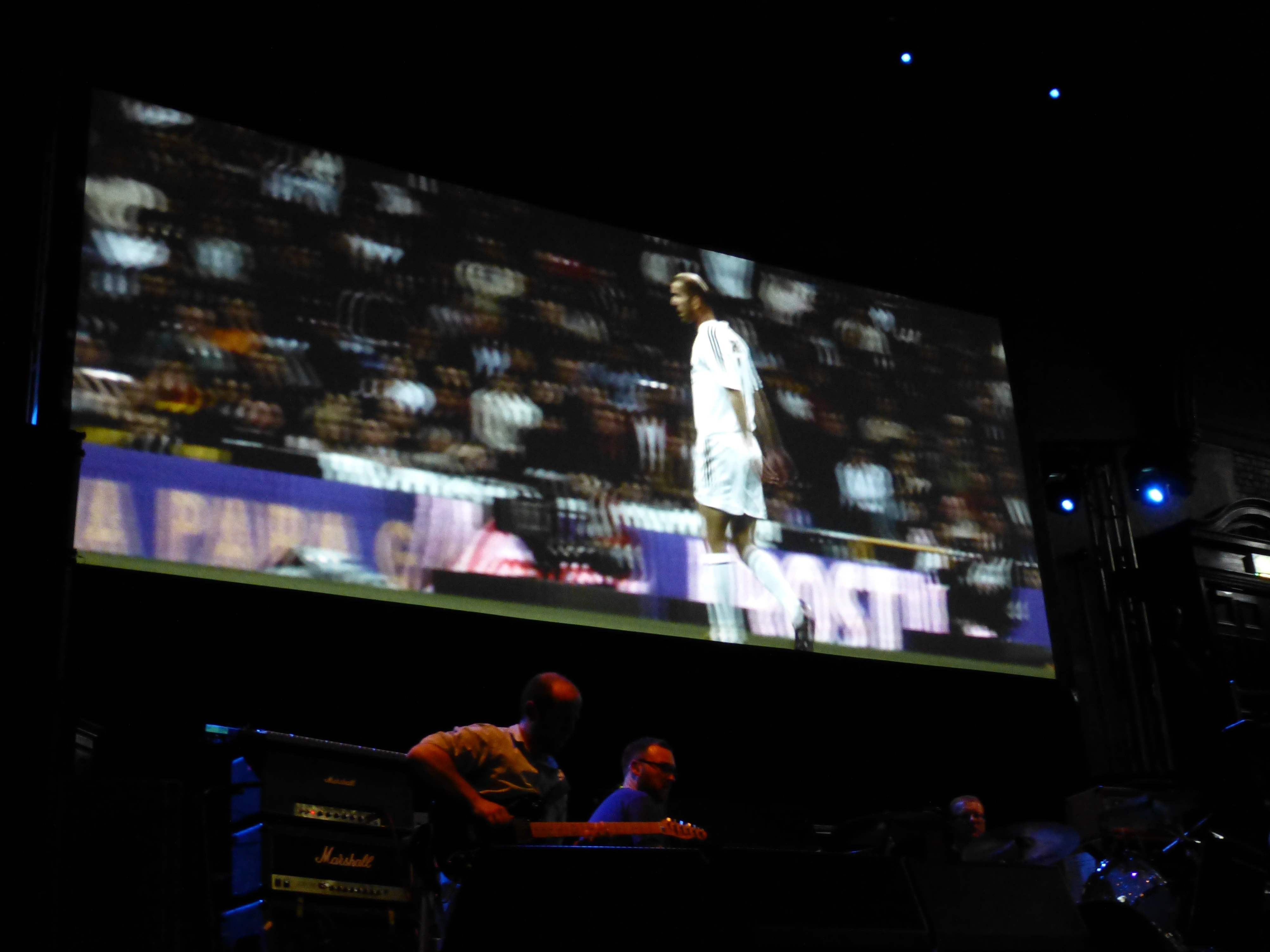 Mogwai: Zidane, A 21st Century Portrait @ Albert Hall, Manchester 19/7/2013